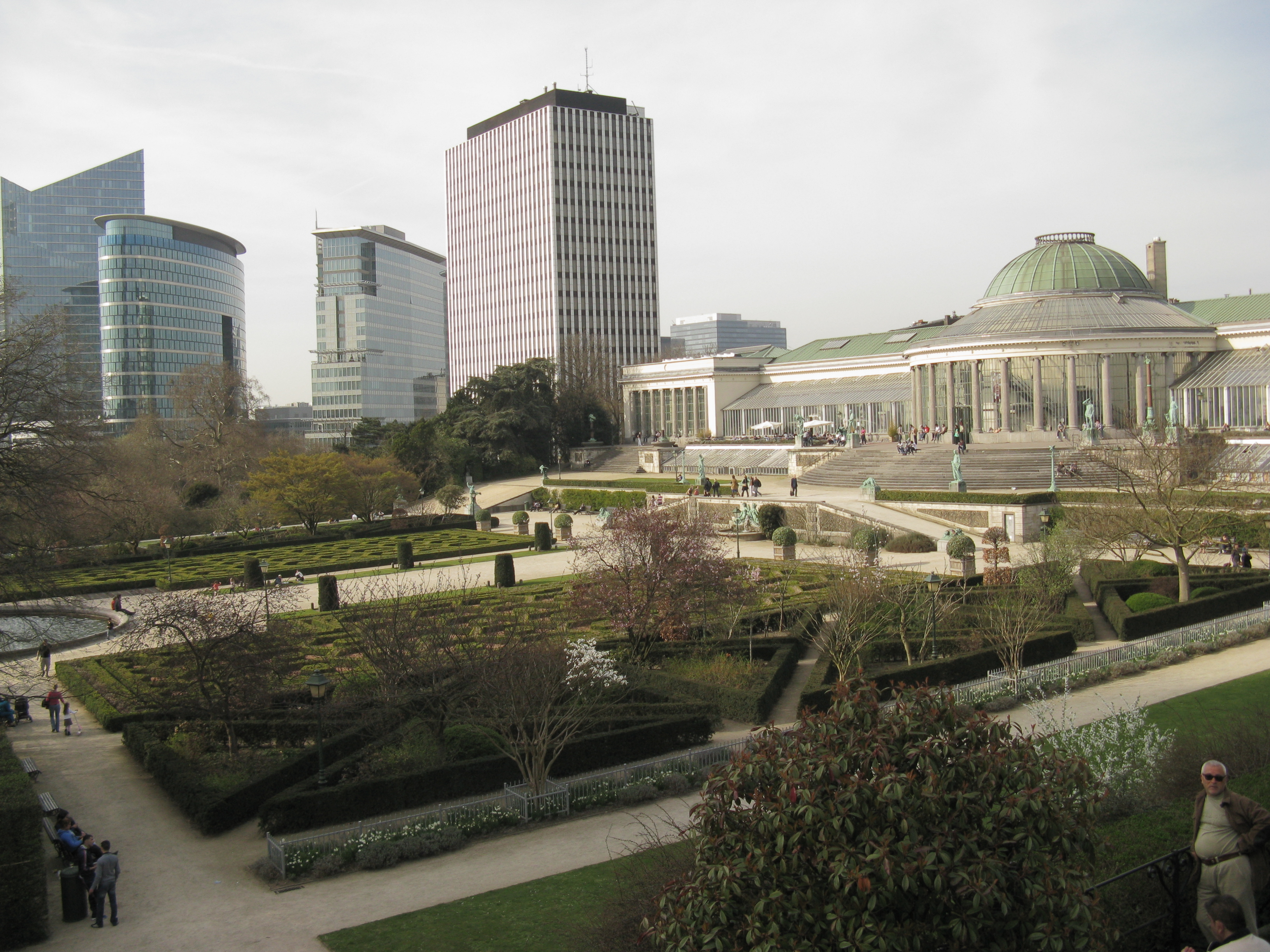 Botanical Gardens, Brussels